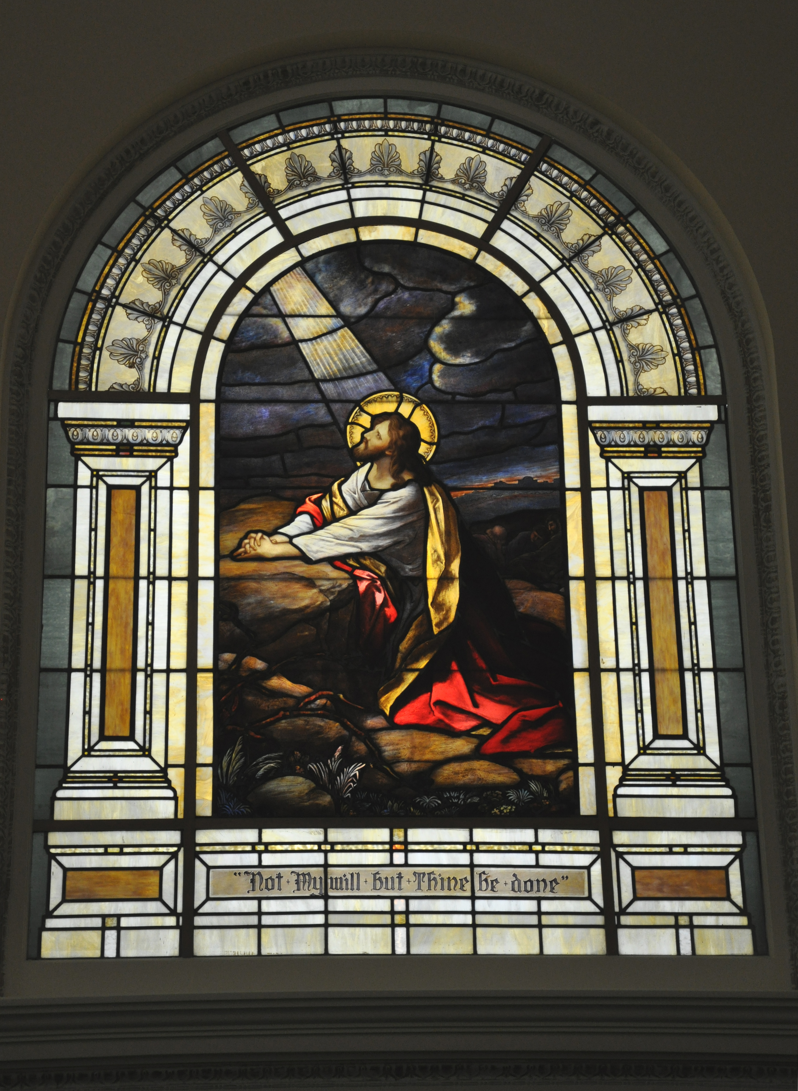 Stained-glass window in the First Christian Church in Portland, in the U.S. state of Oregon. Povey Brothers Studio, active from 1888 to 1928, created the window.